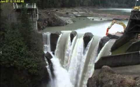 Here five notches can be seen as the 210 ft high Glines Canyon Dam was removed over the course of over a year.